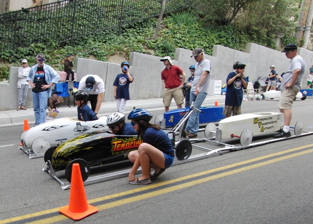 Modern Soap Box Derby racers at the La Canada Soap Box Derby in California